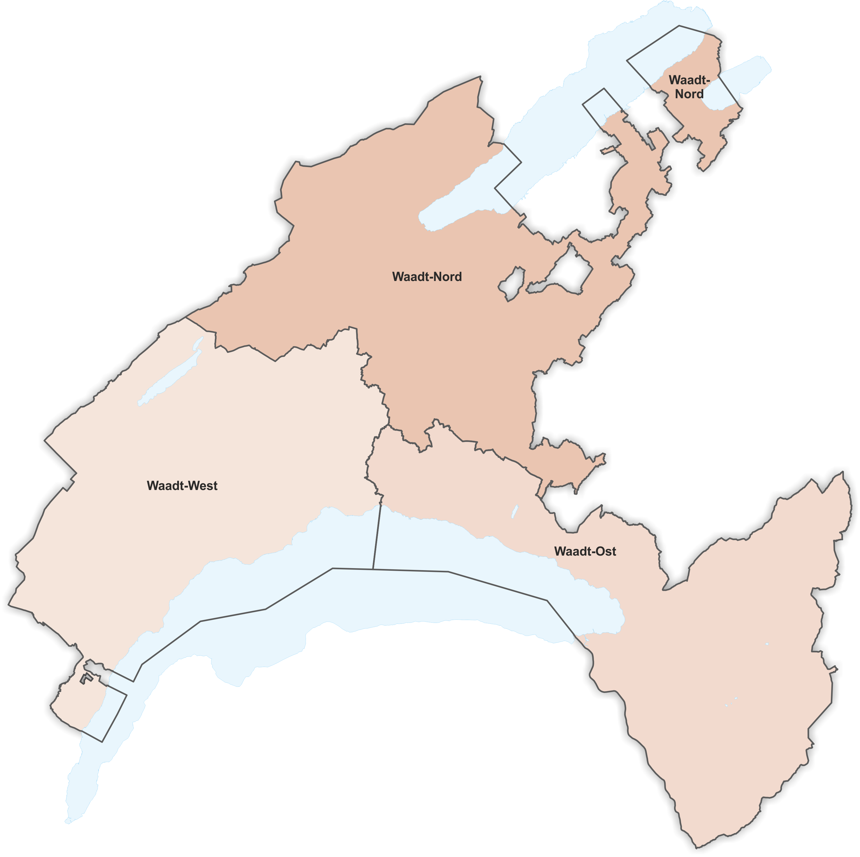 National council constituencies in the canton of Vaud from 1872 to 1878